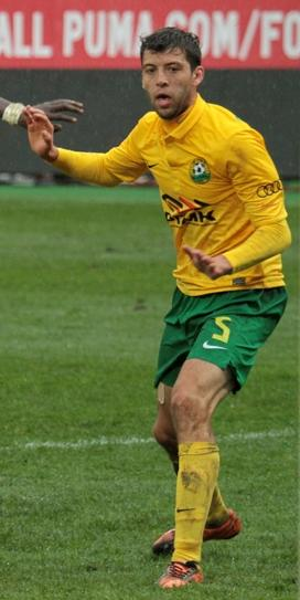 Ángel Dealbert playing for FC Kuban Krasnodar.